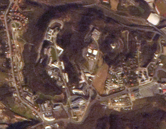 Miramon, Donostia-San Sebastian, Gipuzkoa, Basque Country